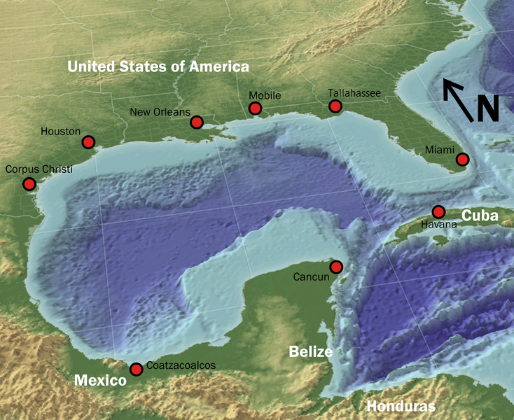 "The Gulf of Mexico in 3D perspective. A GIS can create very accurate and realistic-looking environments."